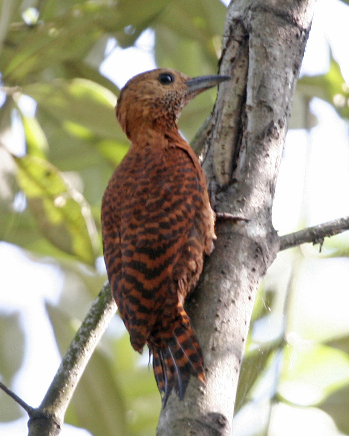 Rufous Woodpecker Micropternus brachyurus, Kranji Nature Reserve, Singapore